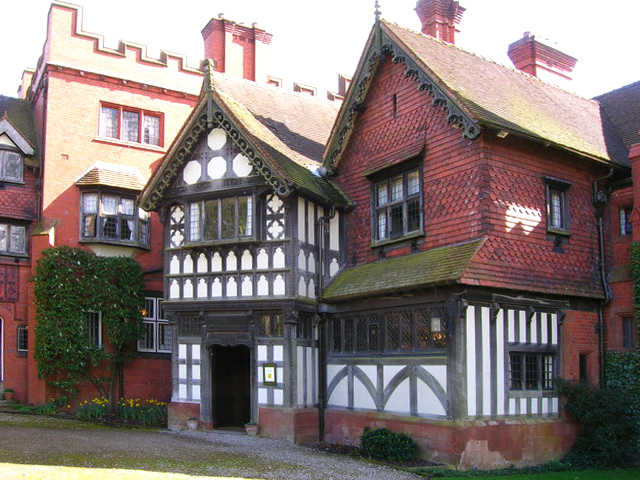 Wightwick Manor